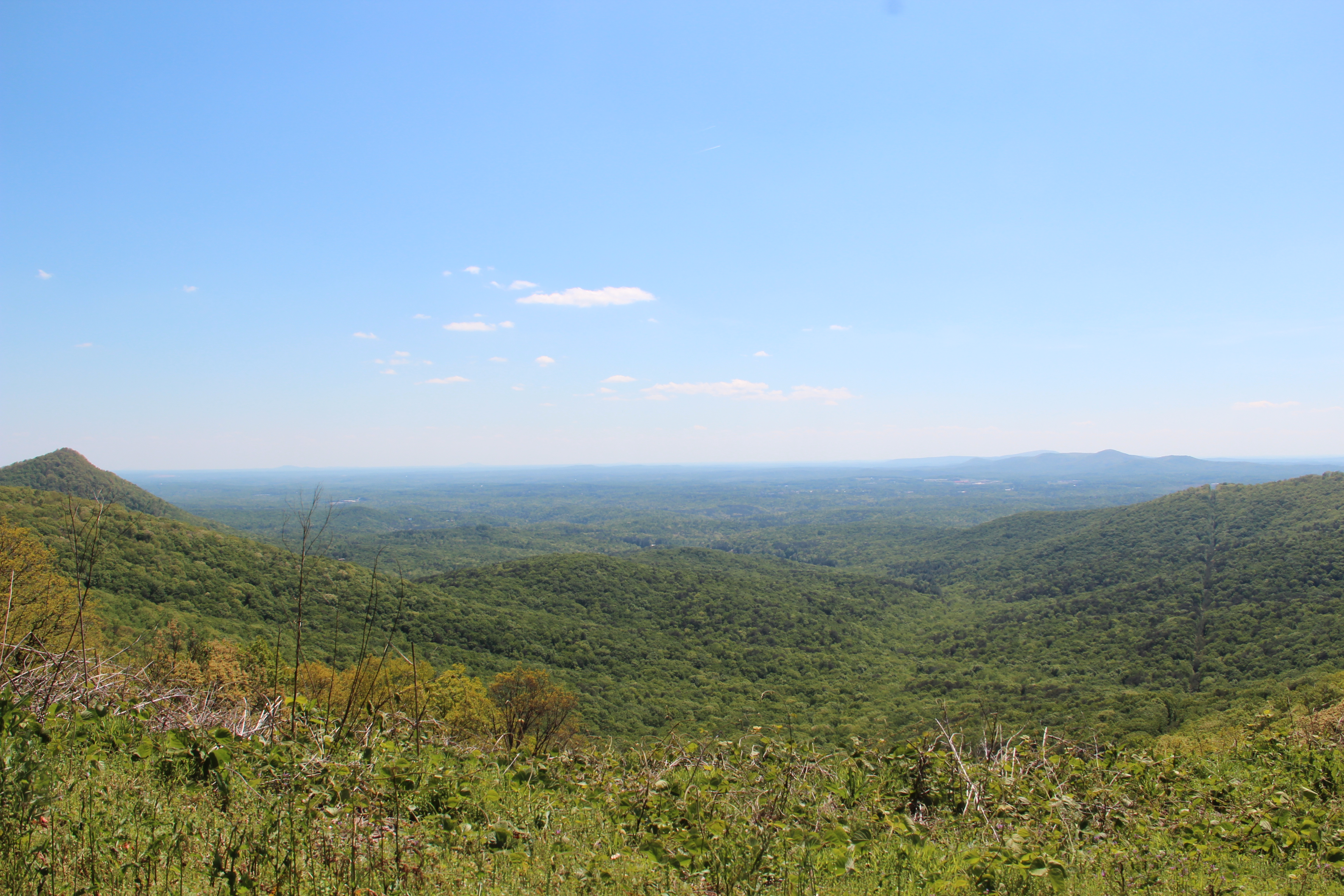 View of Pickens County from an overlook on GA 136